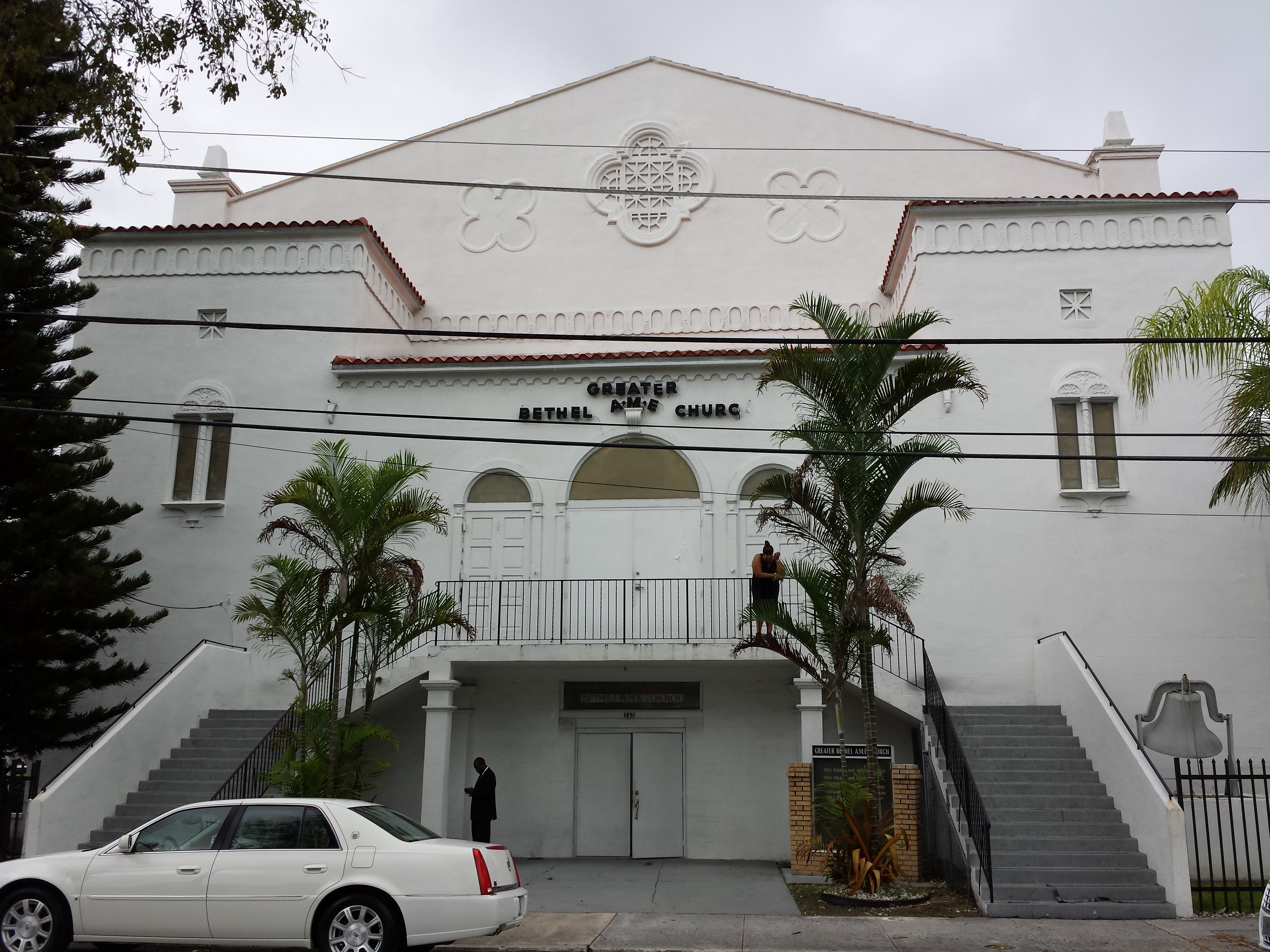 Overtown: Greater Bethel African Methodist Episcopal Church, 245 NW 8th St, Miami, FL